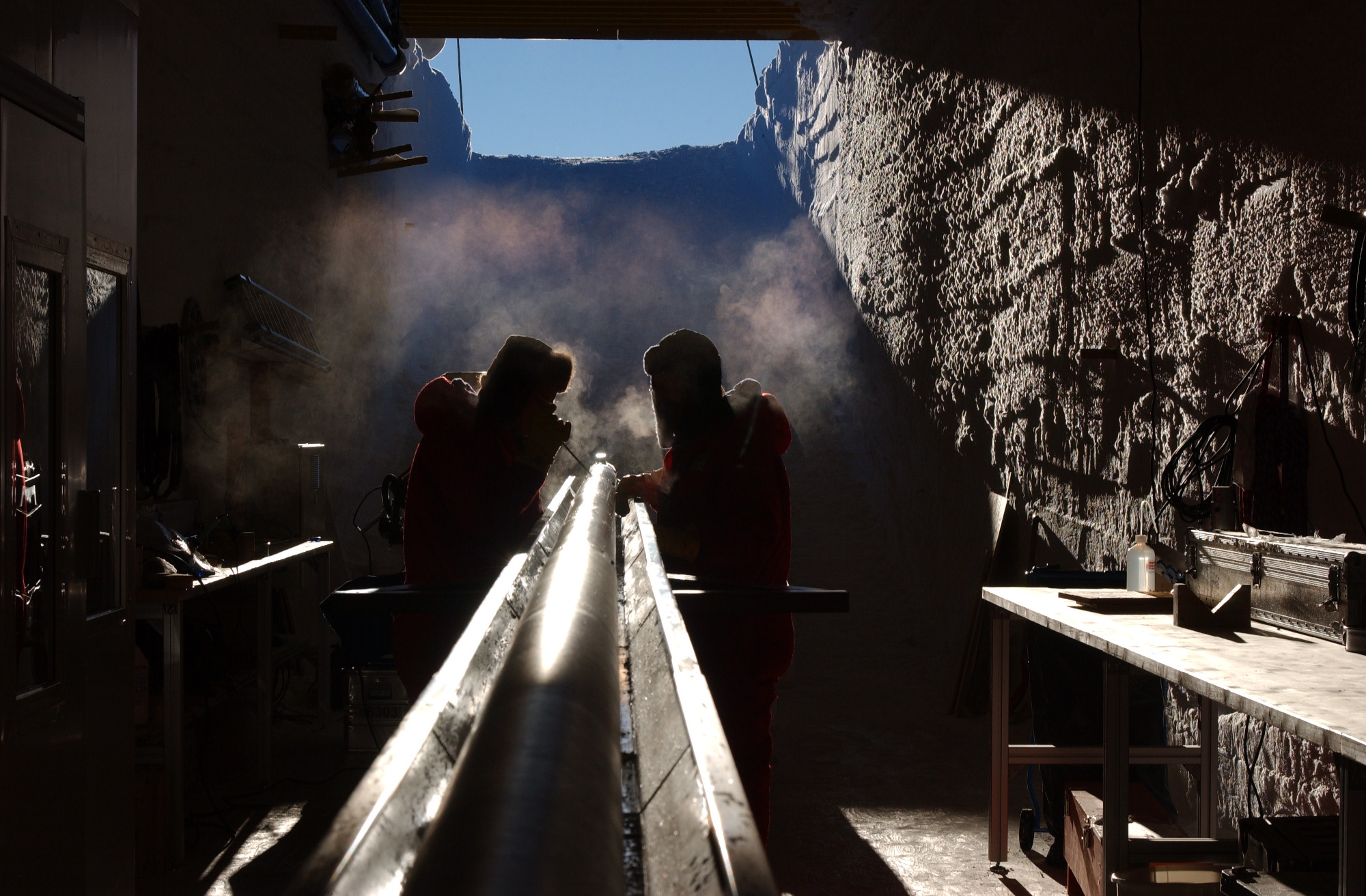 Preparing the ice corer for deployment, EPICA project, Kohnen Station, Dronning Maud Land, Antarctica (Operators: Prof. Dr. Frank Wilhelms and Lorenz Karsten)